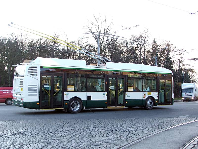 Prototype of Skoda 24TrBT in Plzen